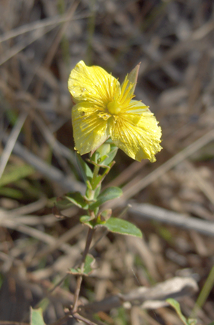 Found in Little Manatee River State Park, Florida